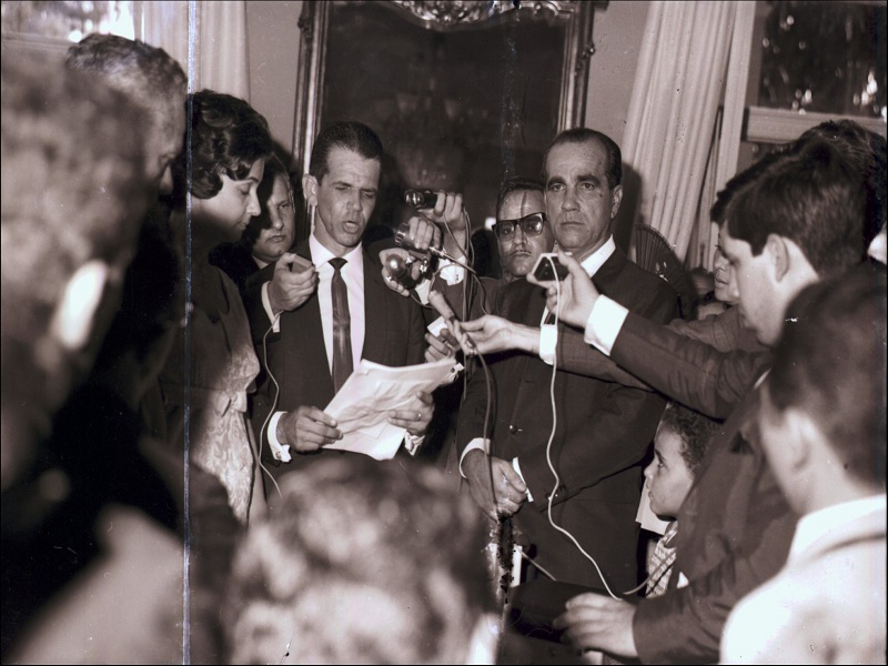 Rio de Janeiro state ex-governor Geremias Mattos Fontes, in January 31th, 1962.